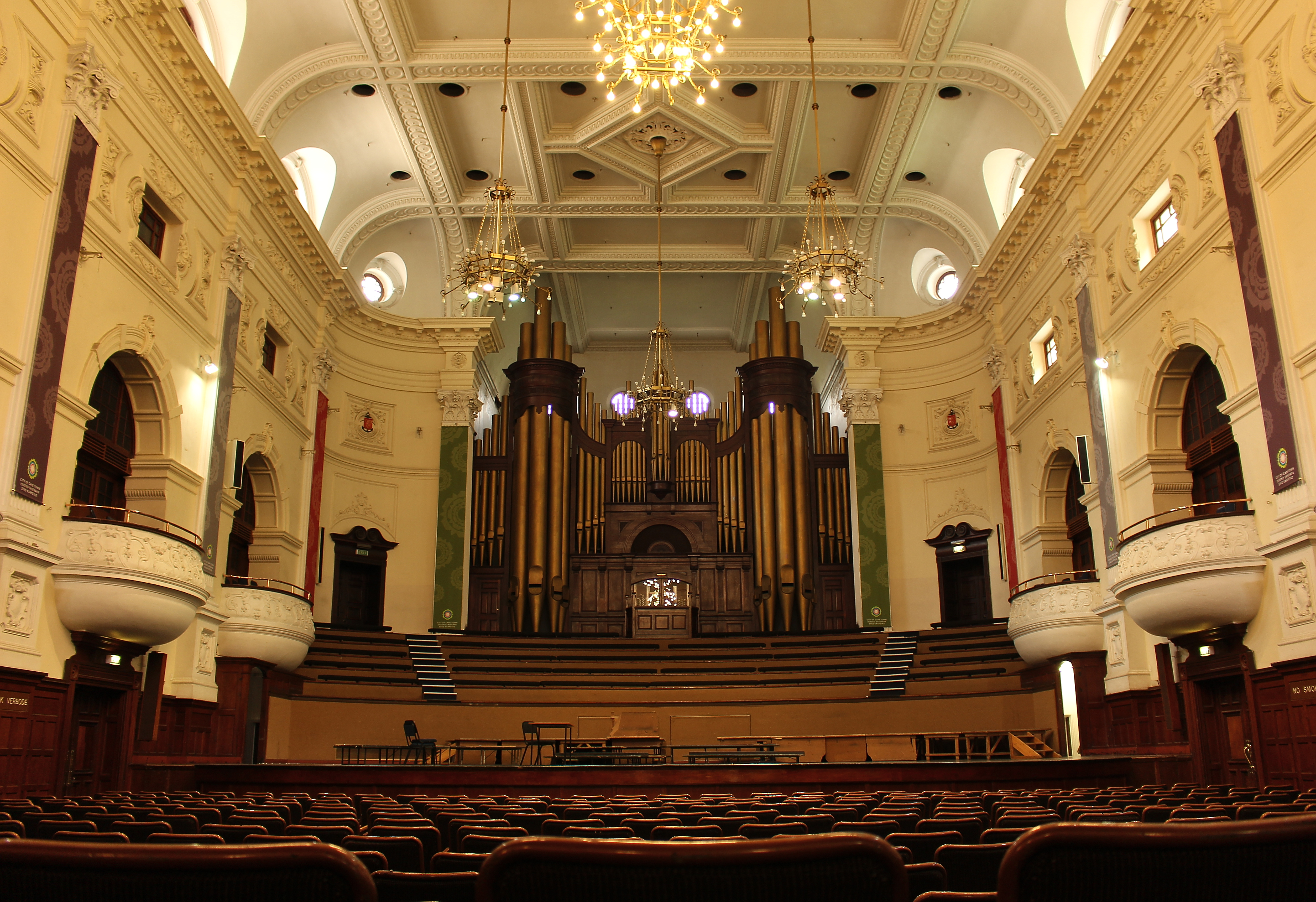 The auditorium of the City Hall, Darling Street, Cape Town. This media shows a South African Protected Site with SAHRA file reference 9/2/018/0115.